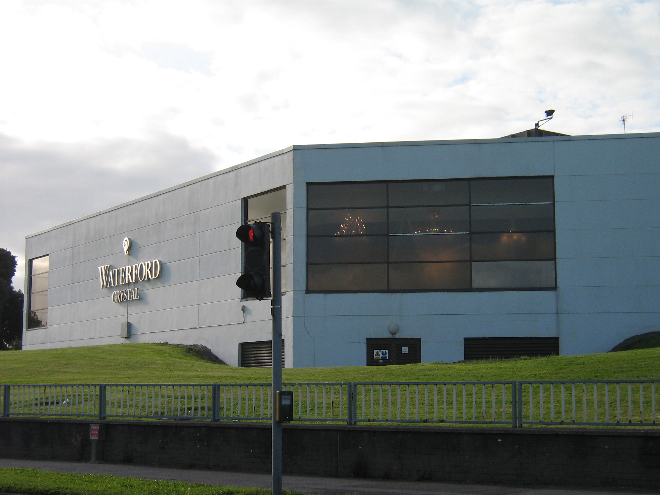 Building of Waterford Crystal